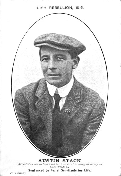 Postcard of Austin Stack issued after Easter 1916